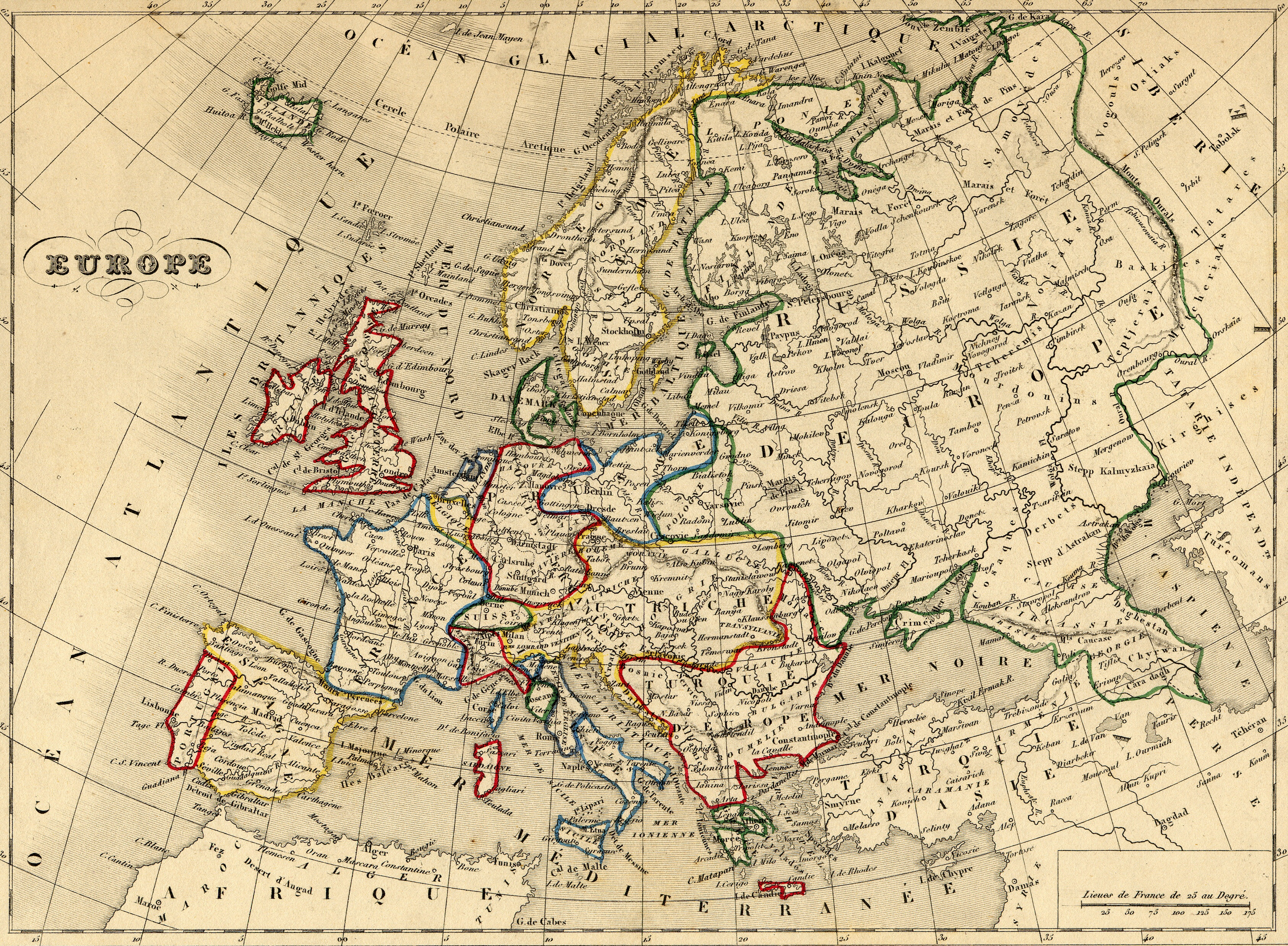 Map of Europe (wp-EN) with french names made by Alexandre Vuillemin in 1843 extracted from his “Atlas universel de géographie ancienne et moderne à l'usage des pensionnats”.